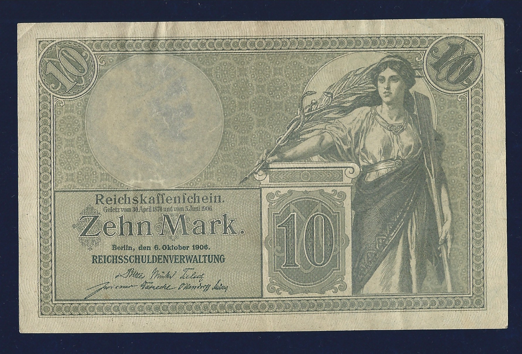 German 10 Mark 1906 Reichskassenschein. Reichsschuldenverwaltung Berlin 6 October 1906. 7 digit serial number. Pick 9b. Design: Alexander Zick, 1845 Koblenz – 1907 Berlin Condition: High grade: Almost EXTREMELY FINE. No hidden faults.